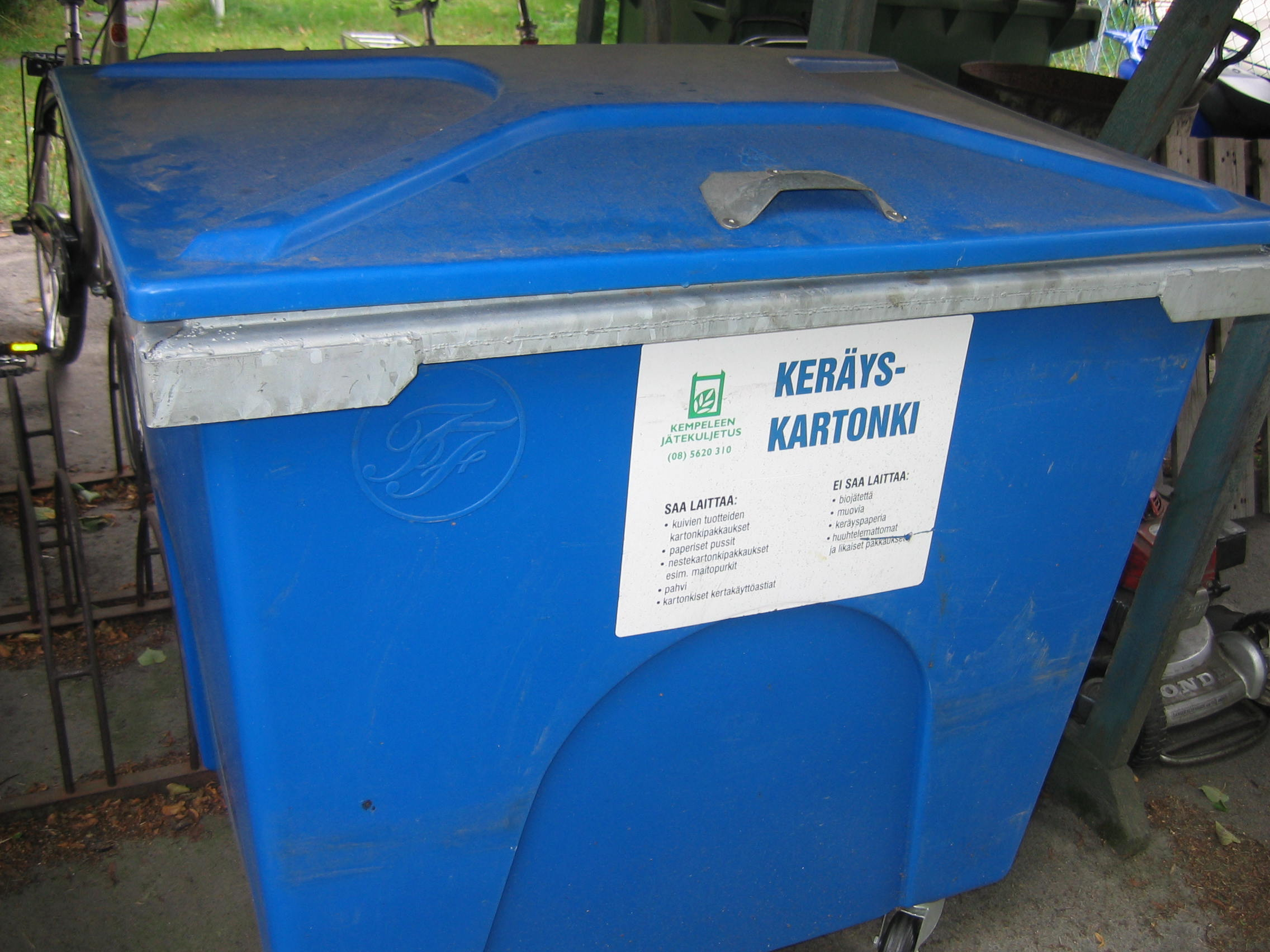 A can used to collect cardboard for circulation (in Oulu, Finland)